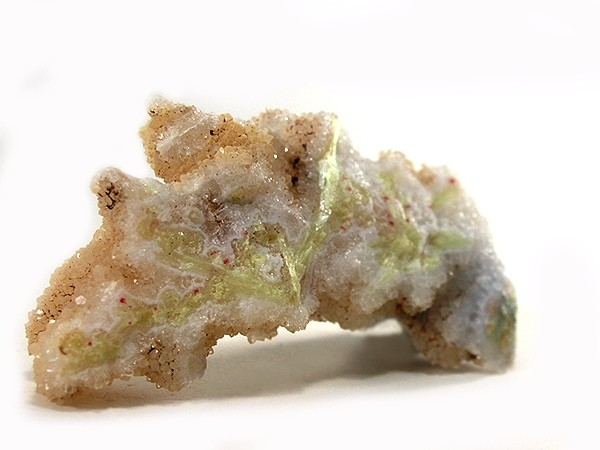 Carpathite Locality: Picacho Mine (Picachos Mine; Los Picachos Mine; Picahotes Mine; Benta Mine; Hernandez Mine; Ramirez Mine; Bonanza Mine), New Idria District, Diablo Range, San Benito County, California, USA (Locality at ) Beautiful yellow karpatite in striking microcrysatllized quartz matrix plate. Nice! 6.4 x 3.1 x 1.5 cm